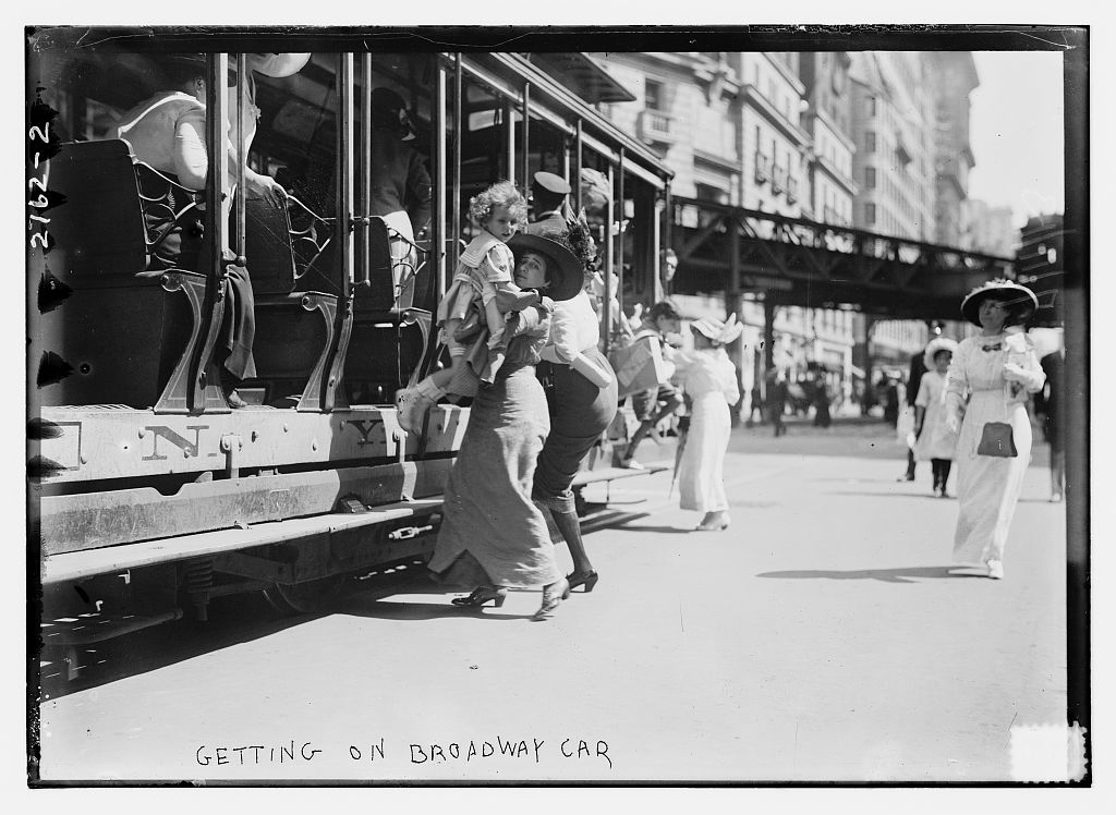 Getting on Broadway car at Herald Square. The Hotel McAlpin is shown in the background along with the elevated tracks of the Sixth Avenue El.